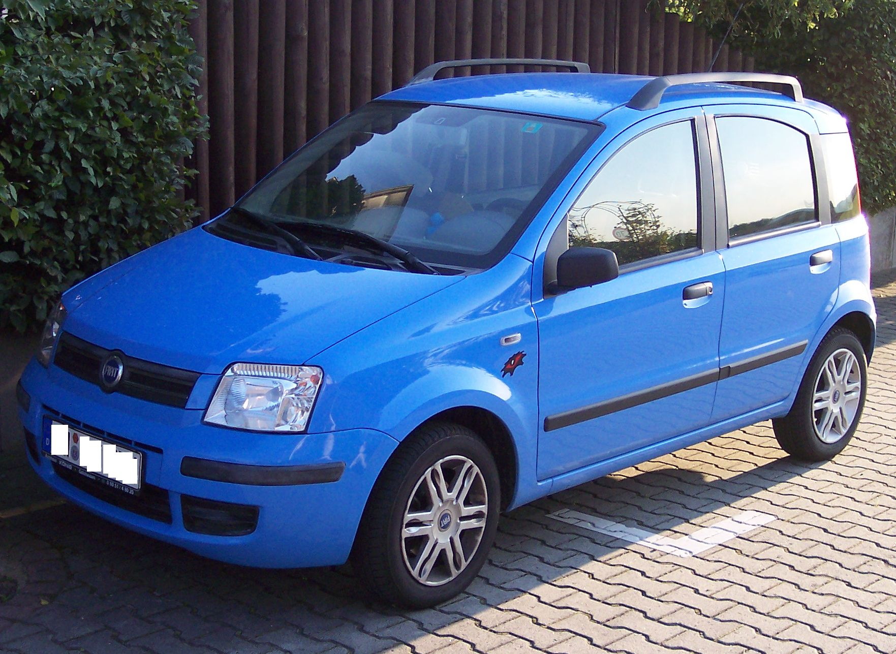 This picture may have usage restrictions - Fiat Panda 2005